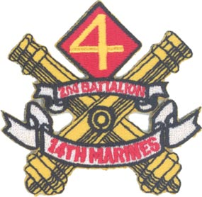 Patch of the 2nd Battalion 14th Marines of the United States Marine Corps.